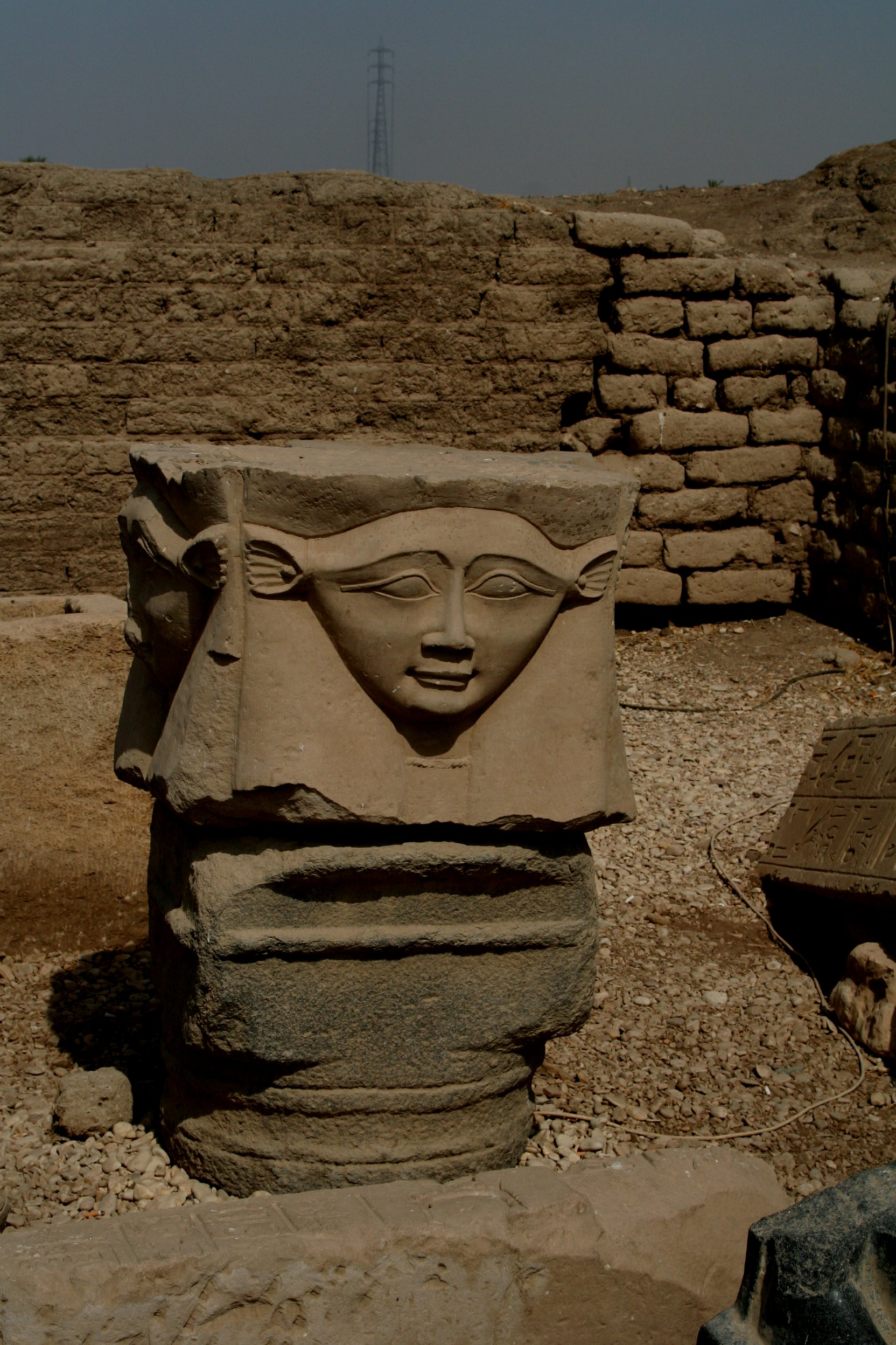 Temple of Hathor at Dendera, Egypt. Hathor Column